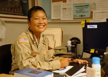 Spc. Kay Izumihara, an Occupational therapist with the JTF-GTMO combat stress team.